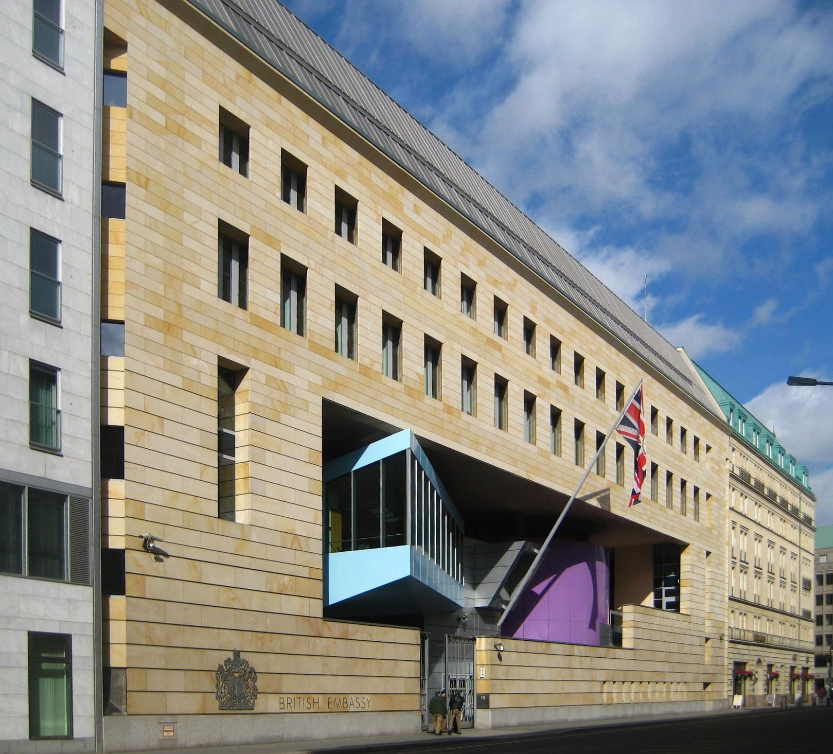 The British Embassy at Wilhelmstraße No. 70 in Berlin-Mitte. It was from 1998 to 2000 to a design by the architect Michael Wilford.